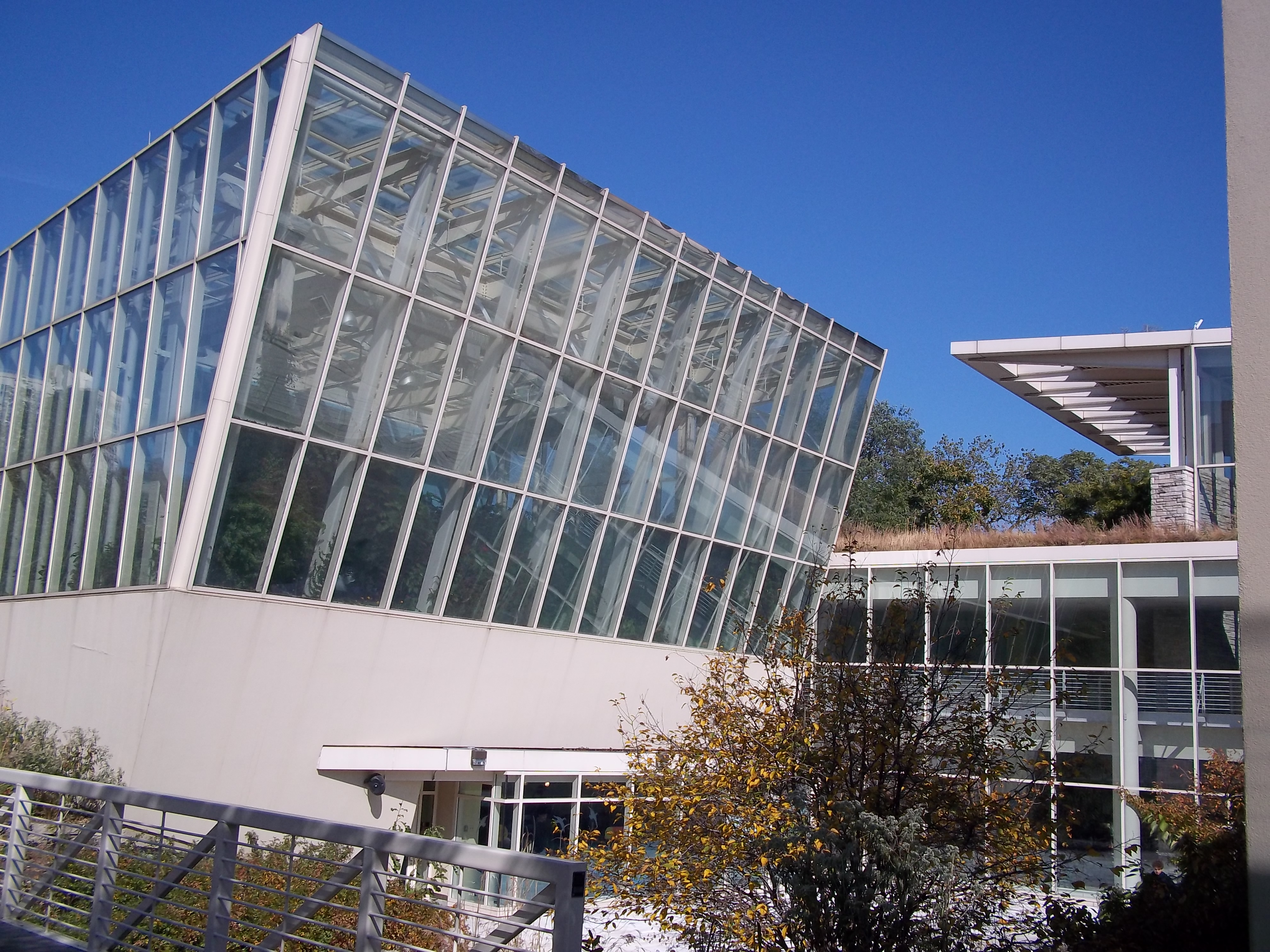 Chicago Academy of Science Peggy Notabaert Nature Museum